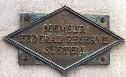 Plaque marking that a bank is a member of the Federal Reserve System